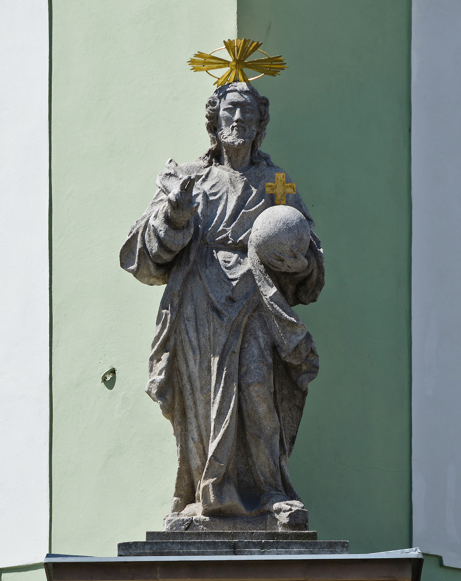 22 Market Square in Nysa, Salvator Mundi's sculpture